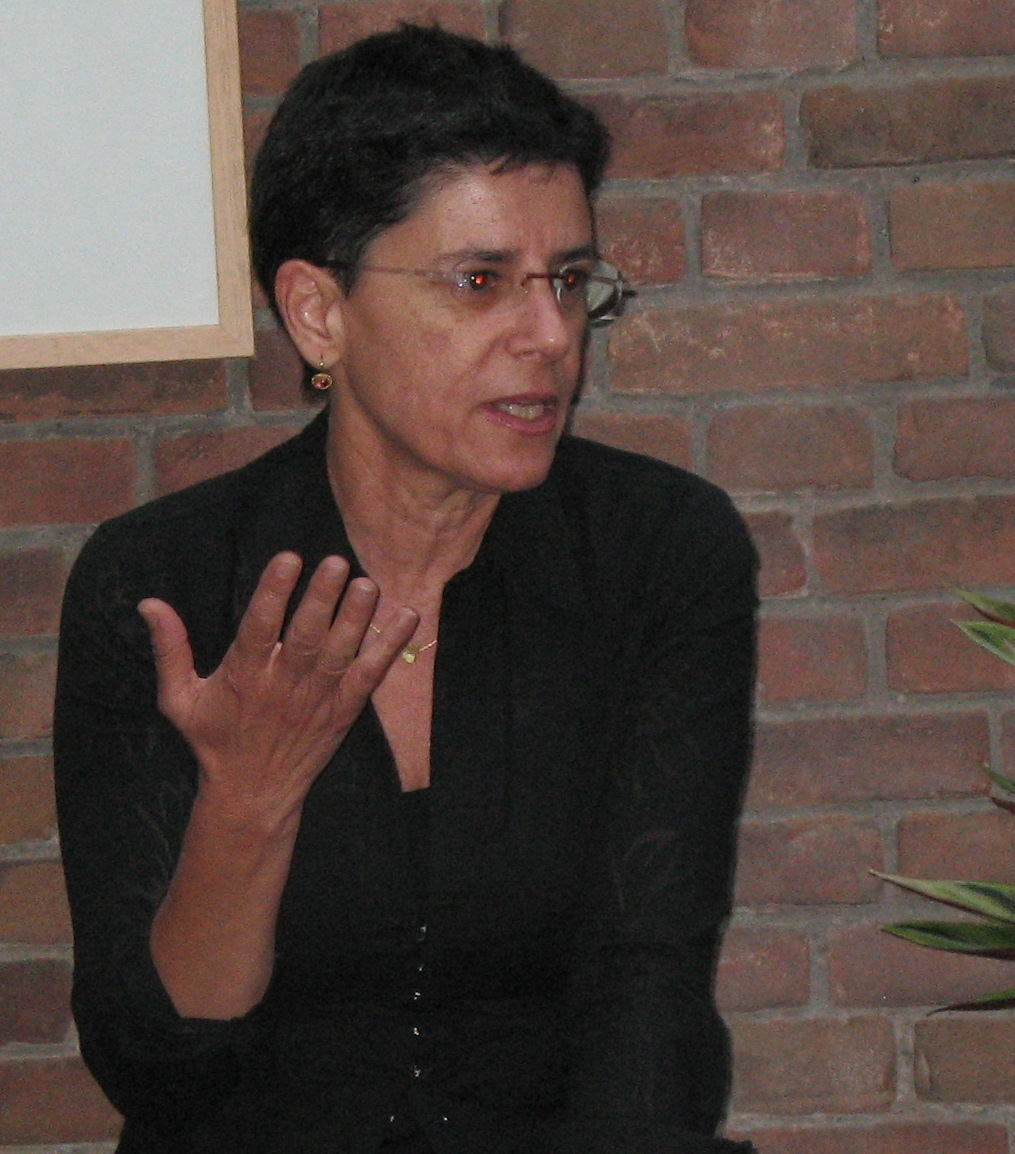 Anat Saragusti